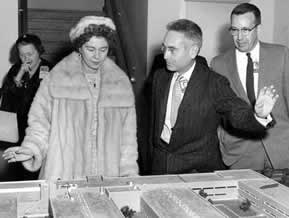 ORNL Director Alvin Weinberg shows a model of Building 4500-N to Queen Frederika of Greece.